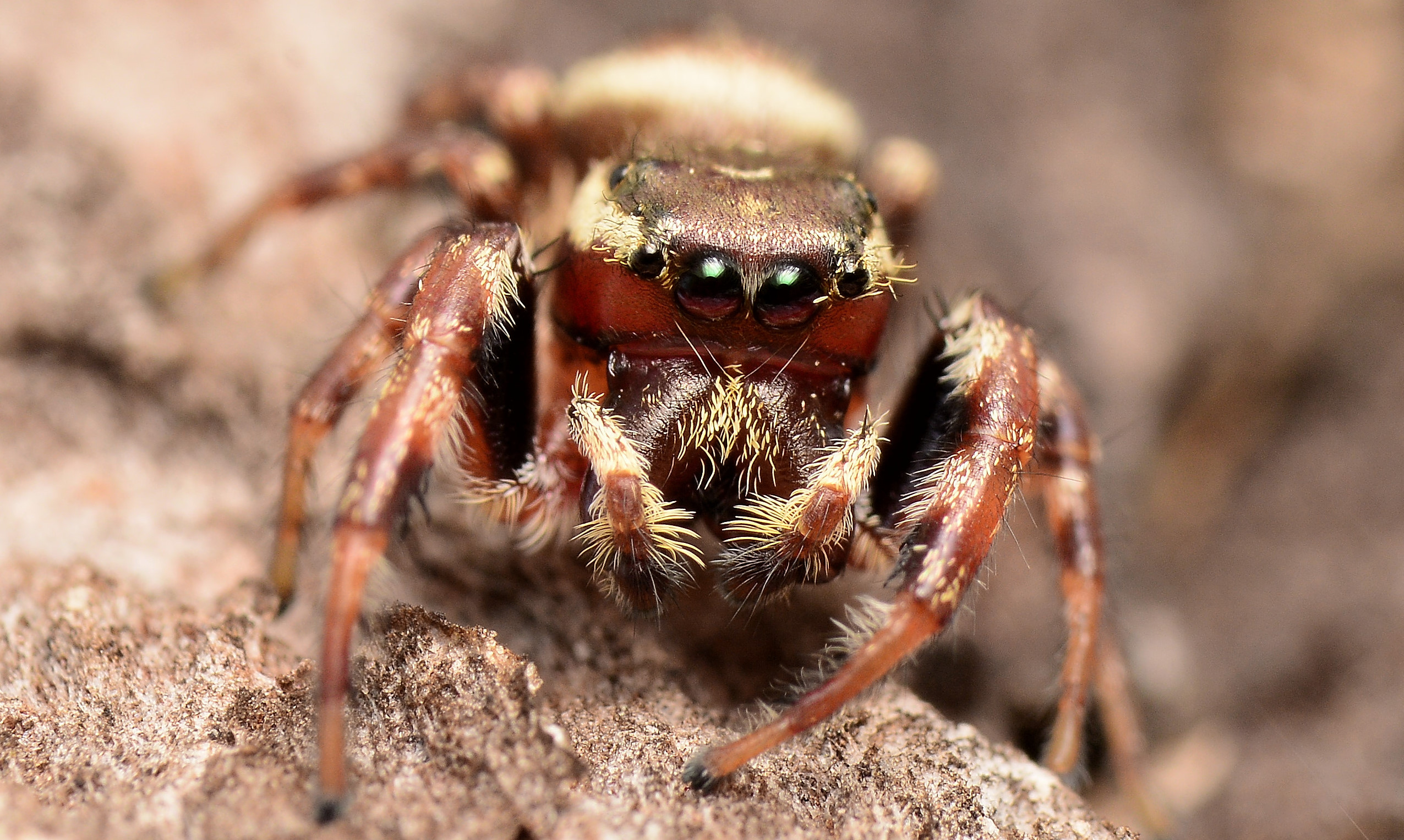 Eris floridana adult male face image. Note: White scales on pedipalps, reddish overall hue